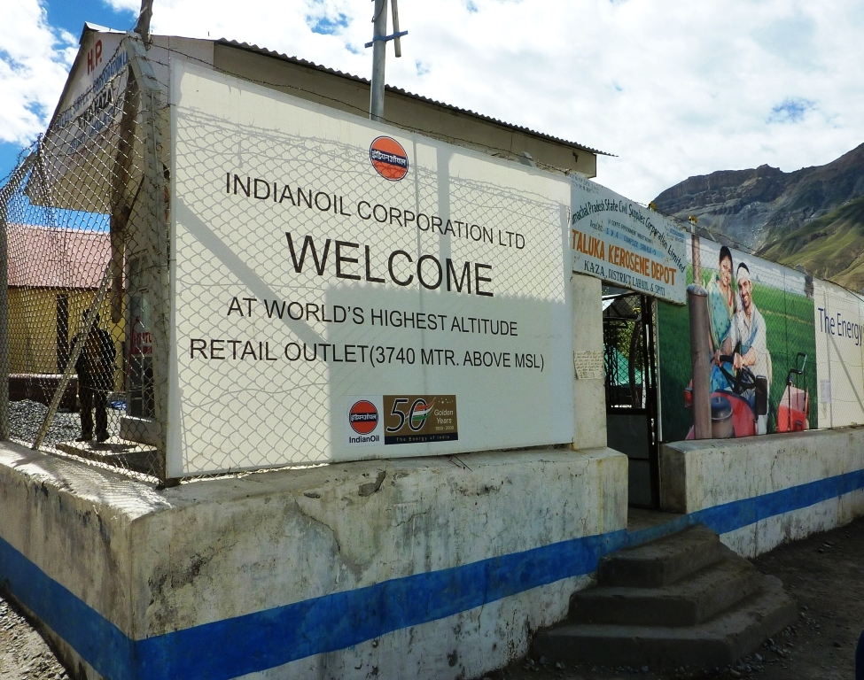 I took this photo of "the world's highest retail outlet" in Ladakh in 2010.